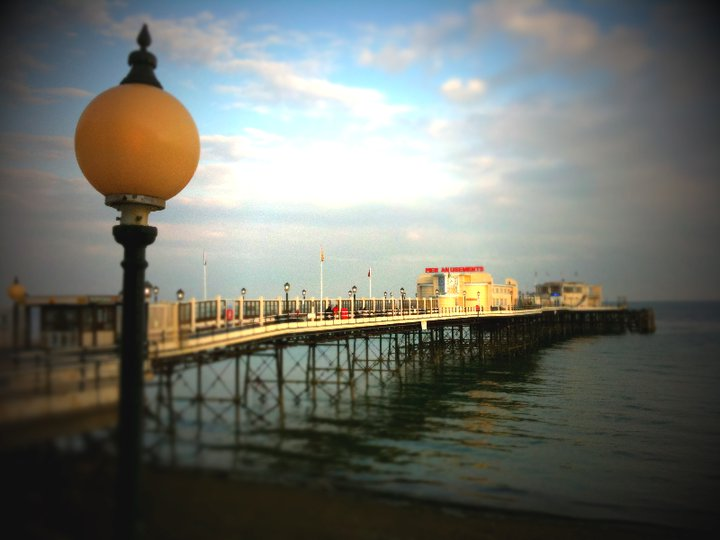 Worthing Pier in West Sussex, UK